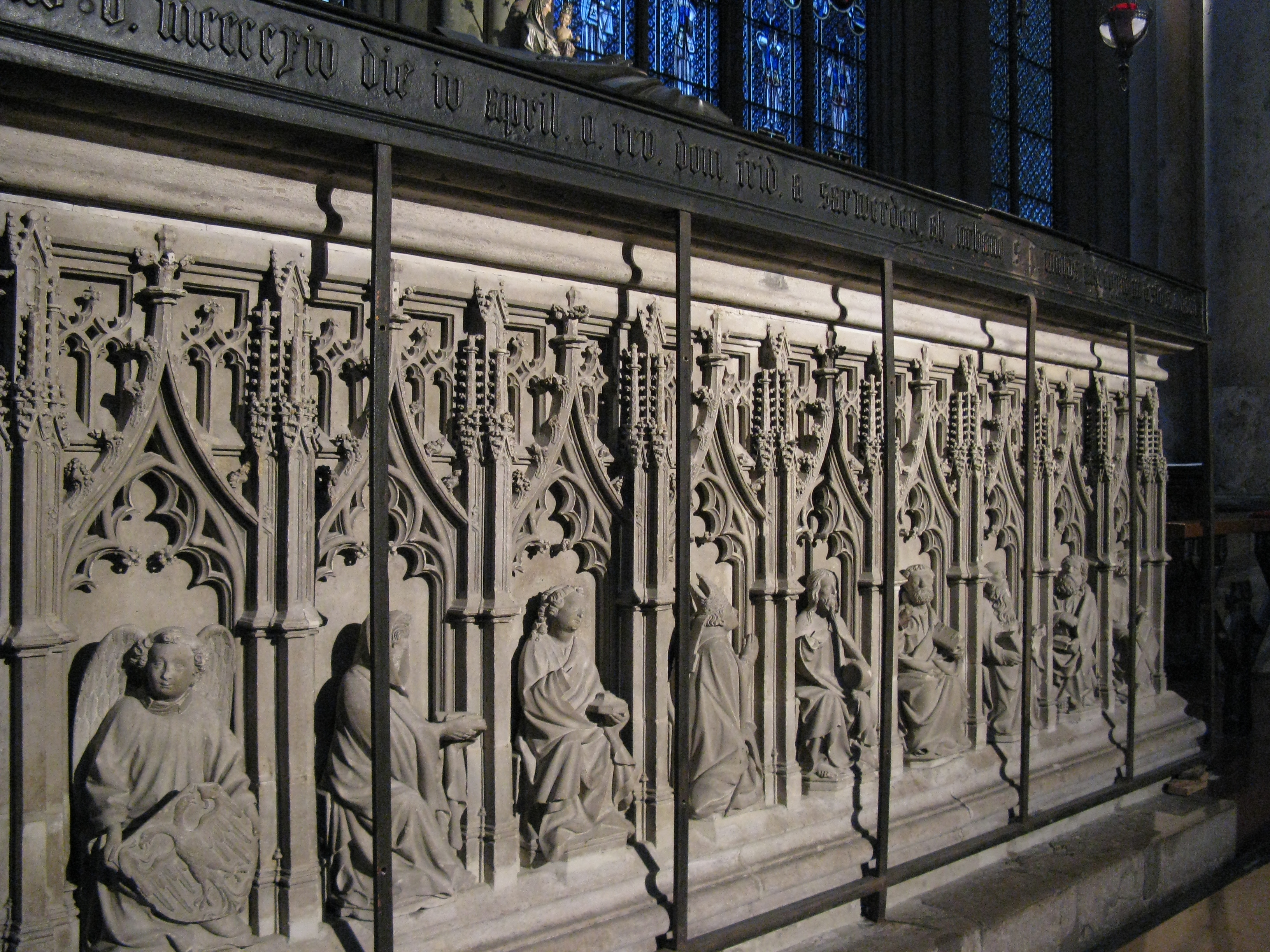 Tomb of Friedrich von Saarwerden inside Cologne Cathedral while the coverage was removed due to an exhibition of the LVR in Bonn.